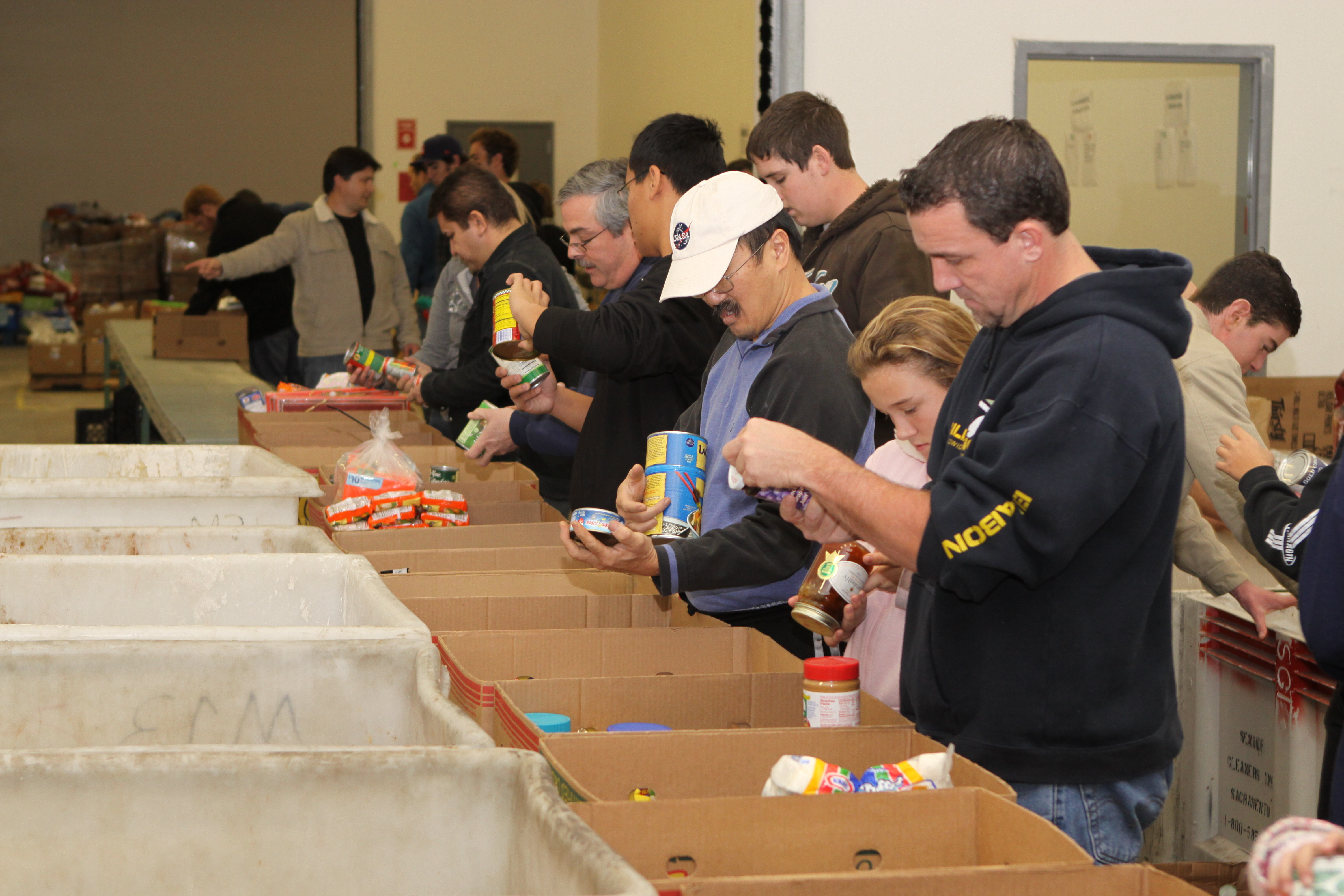 Cymer Volunteers at Civic Event at the San Diego Food Bank